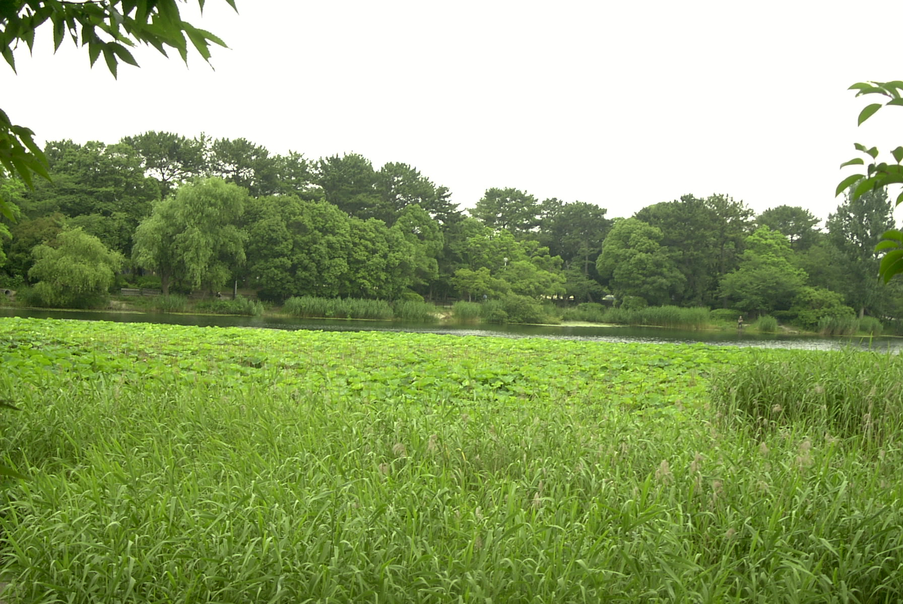 A large pond in Ryokuchi Koen, Osaka. Photo taken by me on July 1, 2006.